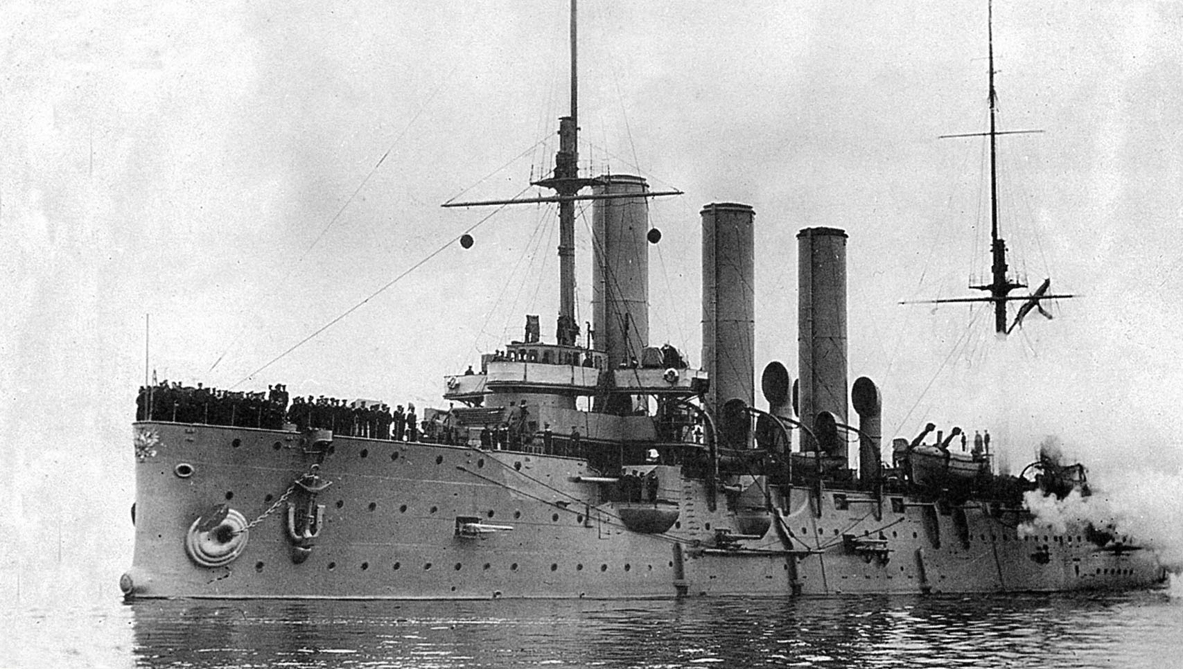 Imperial Russian cruiser Diana after 1908.